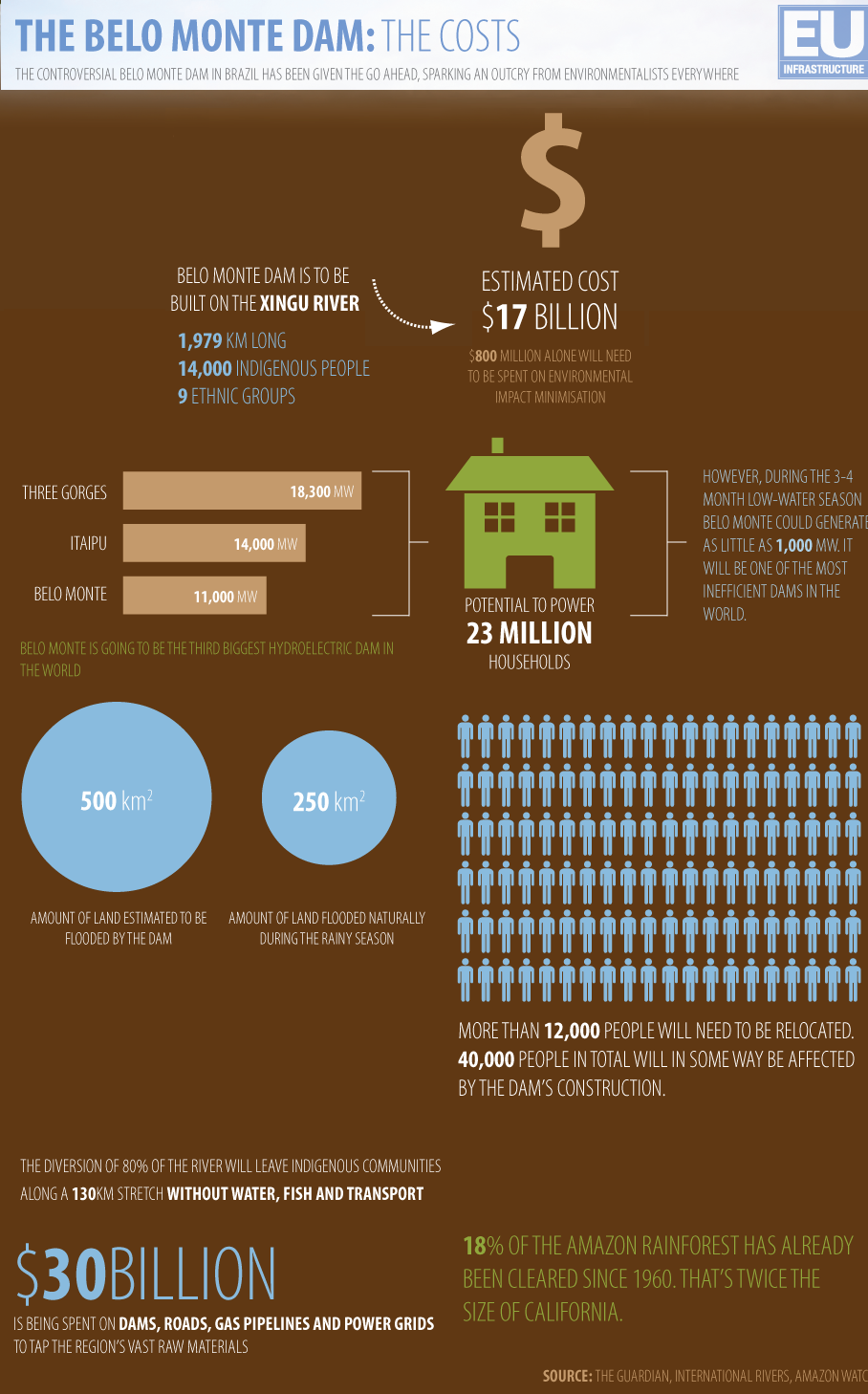 In Brazil, the government has given the green light for the construction of a massive hydroelectric dam that will be able to generate enough energy for over 23 million homes. However, its creation will see the flooding of huge portions of the Amazon basin, displacing indigenous tribes and putting 500 sq km of rain-forest underwater.